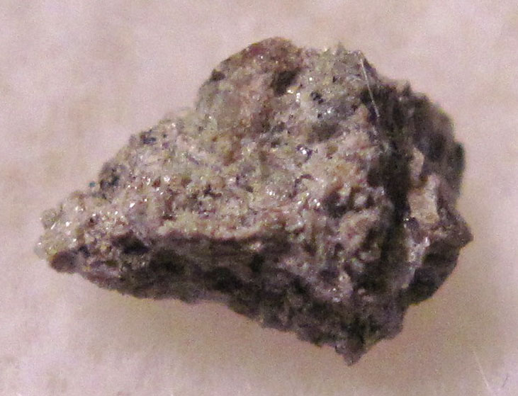 Shergotty is the namesake of the martian shergottites and a very historic witnessed fall. This martian meteorite fell on August 25, 1865 in the Gaya district of Bihar, India known as Shergotty. The meteorite weighed 5 kgs and was retrieved just after it fell. Very little of this fall is circulating in private collections. 50 mgs from Hupe collection.